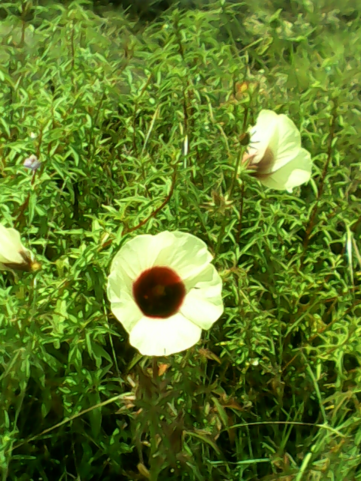 Subshrub,petals yellow inside base purple.